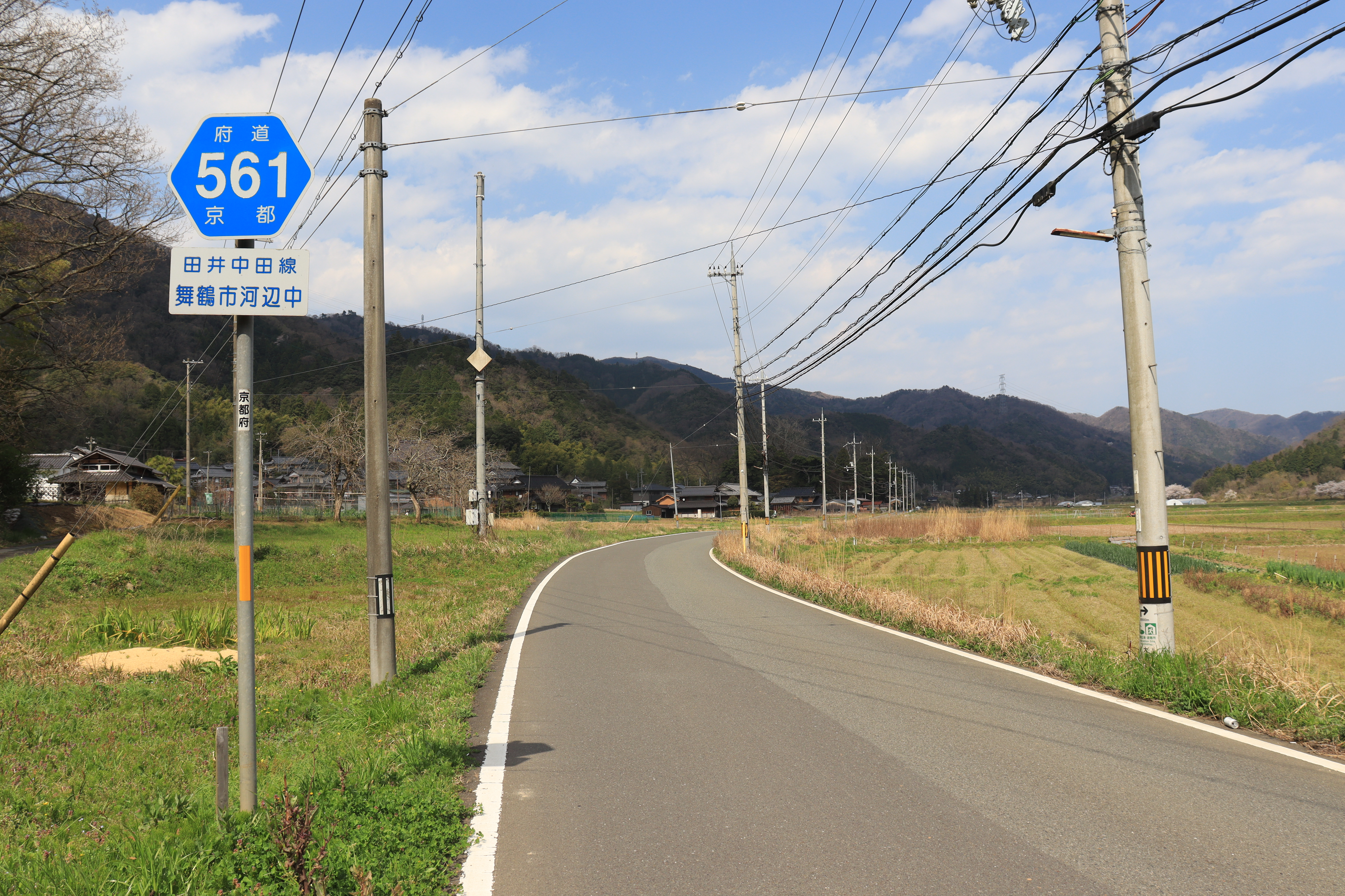 Kyoto Prefectural Road Route 561 in Kawabenaka, Maizuru, Kyoto Prefecture, Japan.